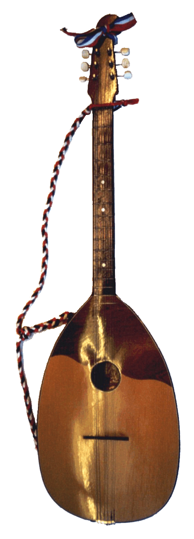 Brac, a Croatian instrument used in tamburica ensembles.